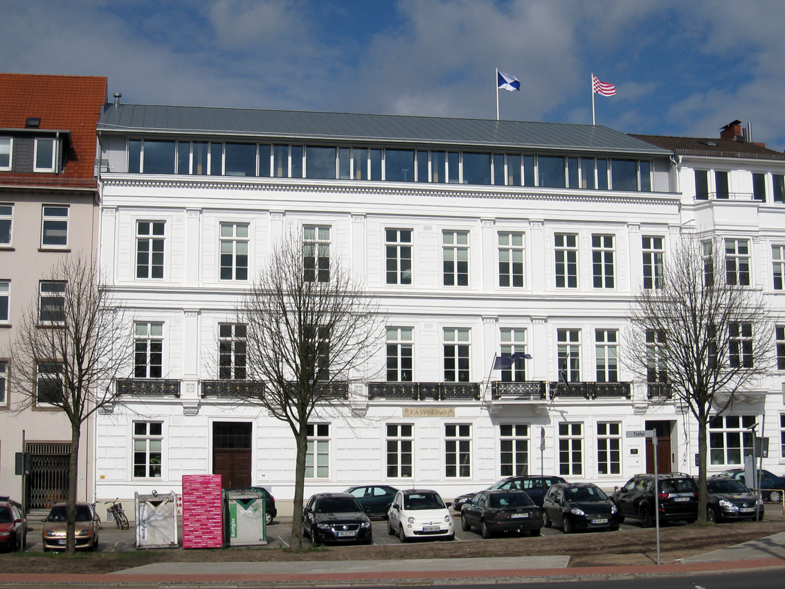 Headquarter of the shipping company F. A. Vinnen & Co. at the street Altenwall No. 21, 22 and 23 in Bremen, Germany.